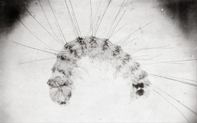 Digital image of an albumenized salt print (photograph), given the title "Der polygraphische Apparat k. k. Hof- und Staatsdruckerei in Wien"